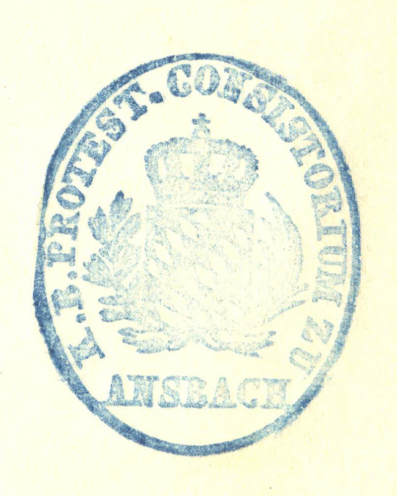 Seal of the Royal Bavarian Protestant Consistory of Ansbach, 19th century